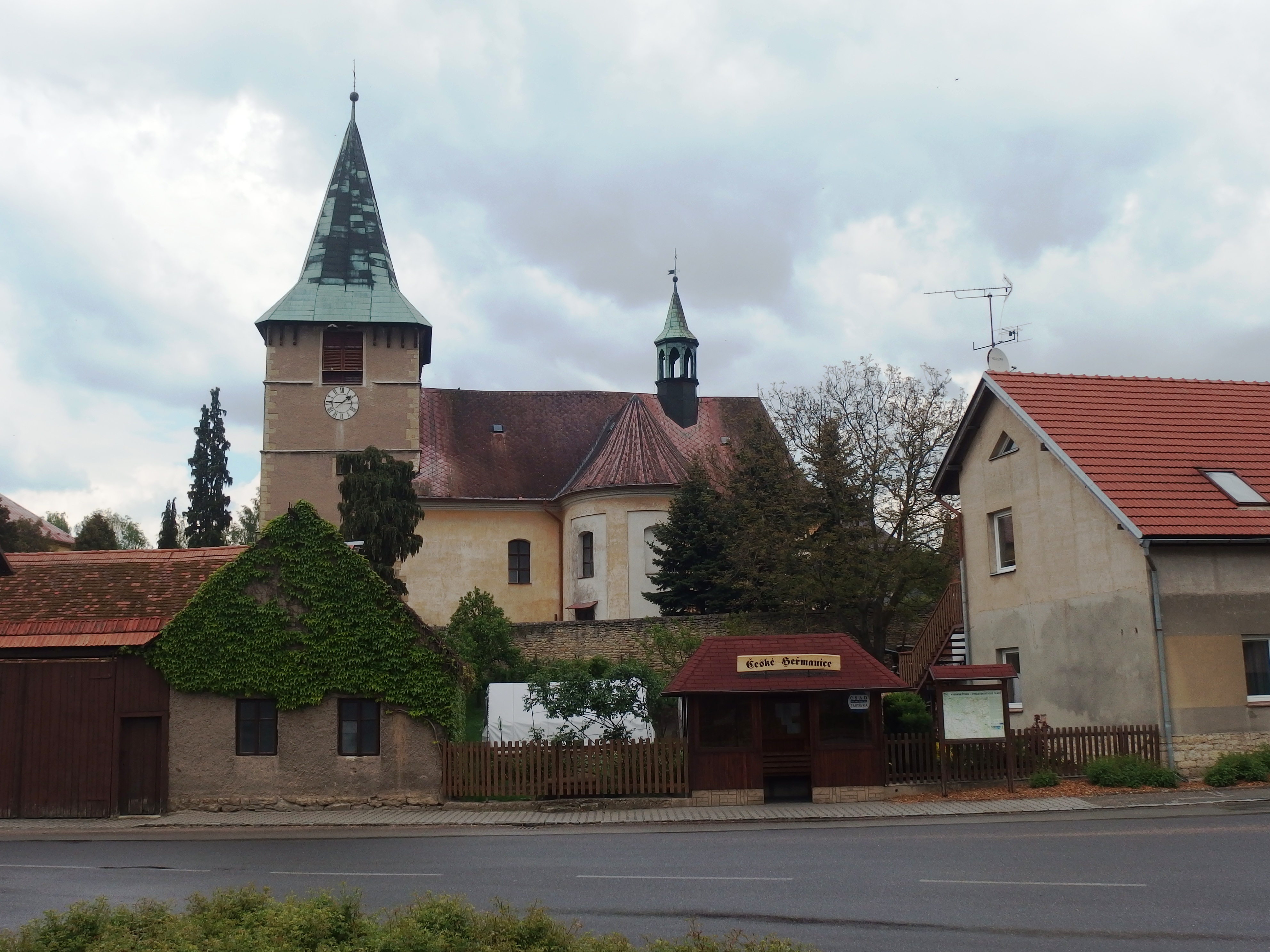 České Heřmanice, Ústí nad Orlicí District, Czech Republic. Church of Saint James the Greater.